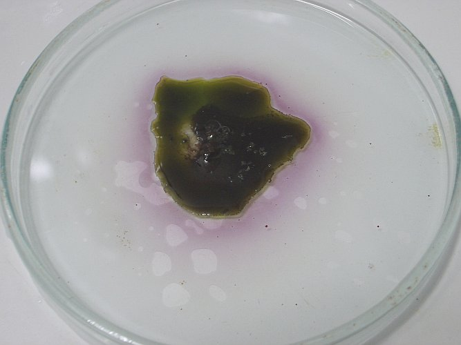 Manganese(VII) oxide, Mn2O7